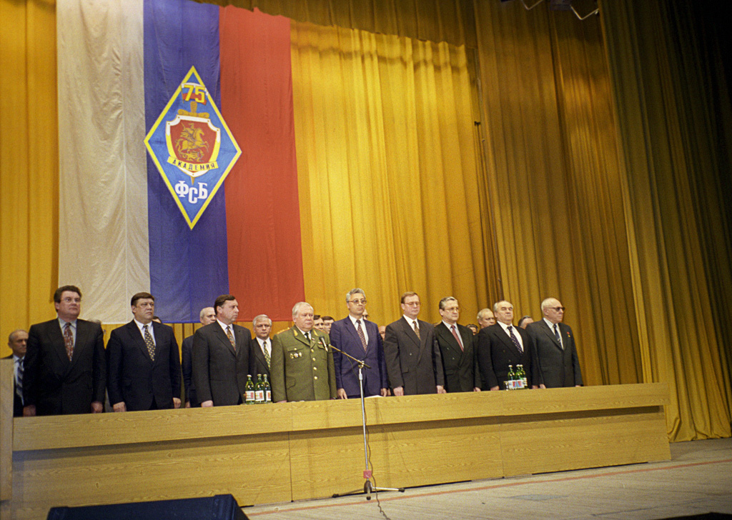 “75th anniversary of Federal Security Service Academy”. The 75th anniversary of the Academy of the Federal Security Service of the Russian Federation. In the presidium, there are veterans of the Russian intelligence service and the command of the FSB Academy.